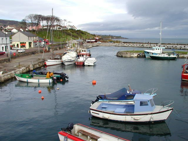 Carnlough Harbour taken in 2005 by Randal McDowell Category:Images of boats Summary Carnlough Harbour taken in 2005 by Randal McDowell